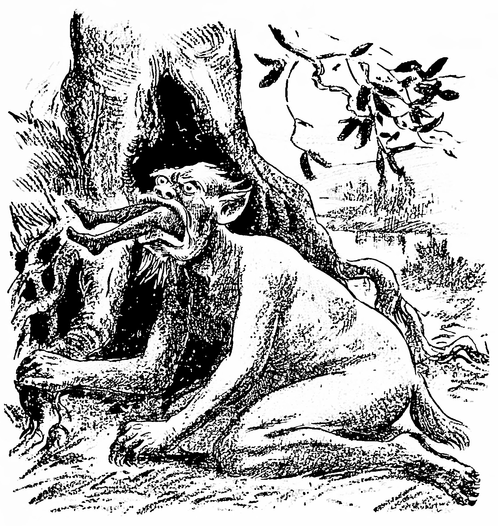 A Yaroma rushed out and swallowed the Man